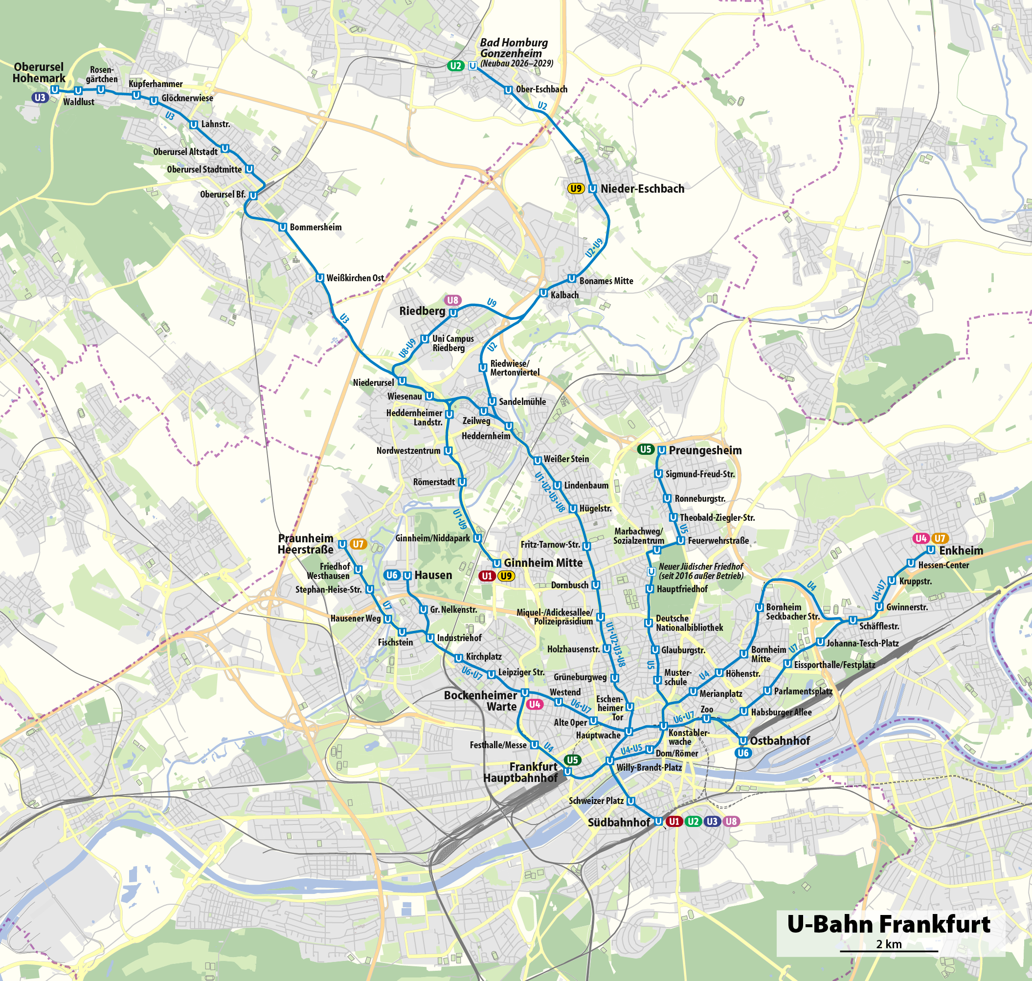 Map of Frankfurt U-Bahn This map may be incomplete, and may contain errors. Don't rely solely on it for navigation.